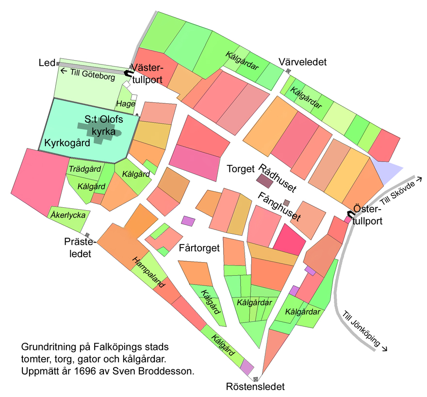 Histiorical map from 1696 of the town of Falköping in Västergötland, Sweden. The original map is surveyed and drawn by Sven Broddesson in the year 1696. In this re-drawing, made in 2010, the names are given in modern spelling.